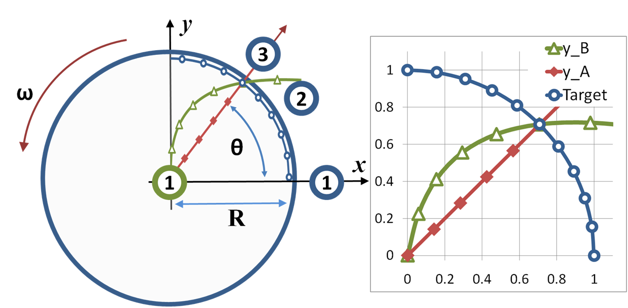 Trajectory of cannon ball on rotating turntable